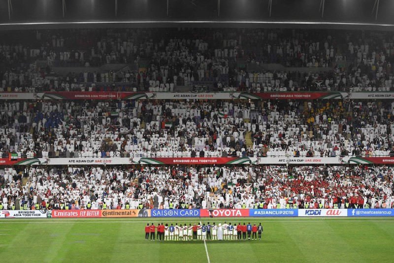 United Arab Emirates-Australia, 2019 AFC Asian Cup quarter-finals